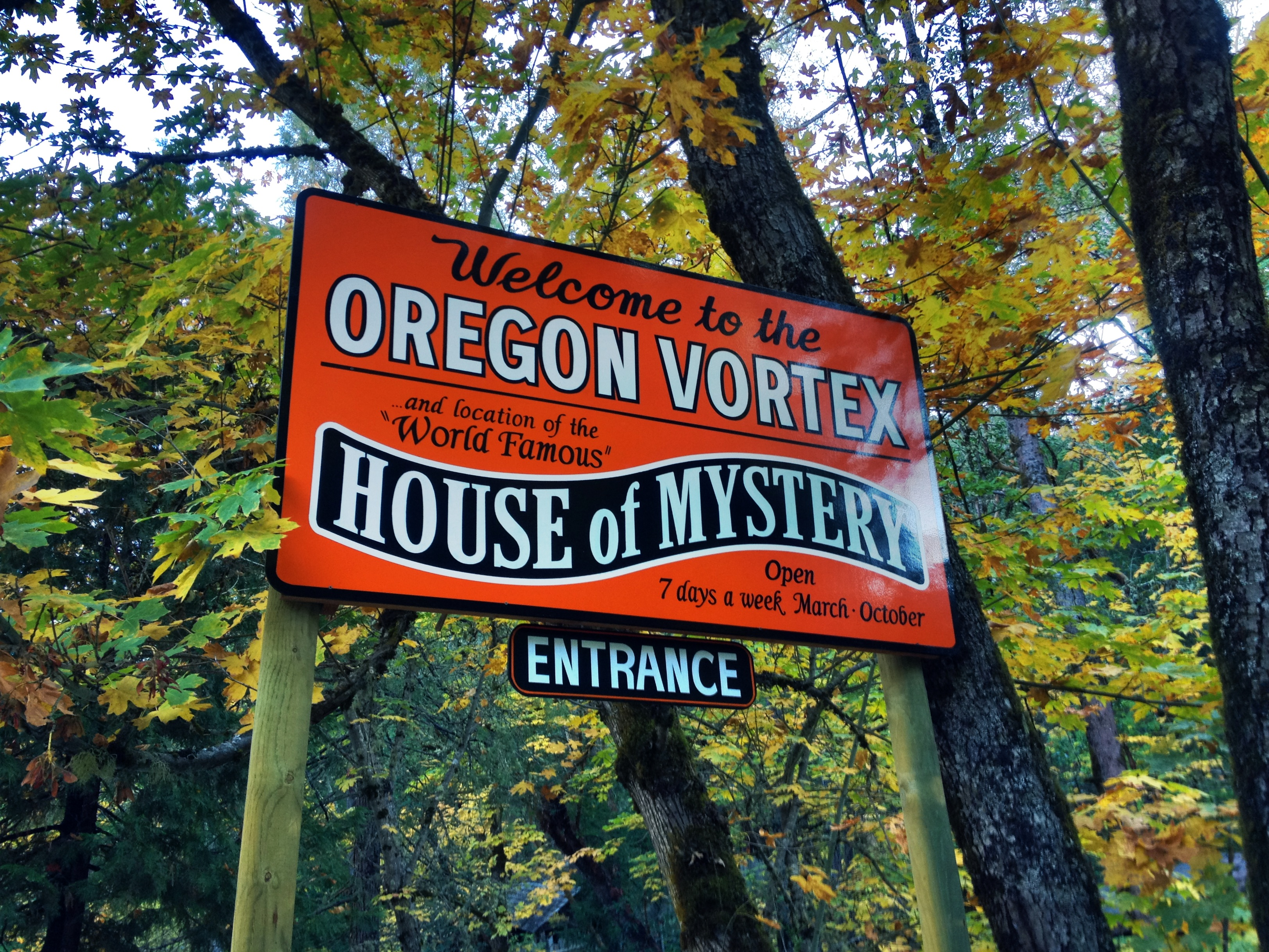 Entering the Oregon Vortex